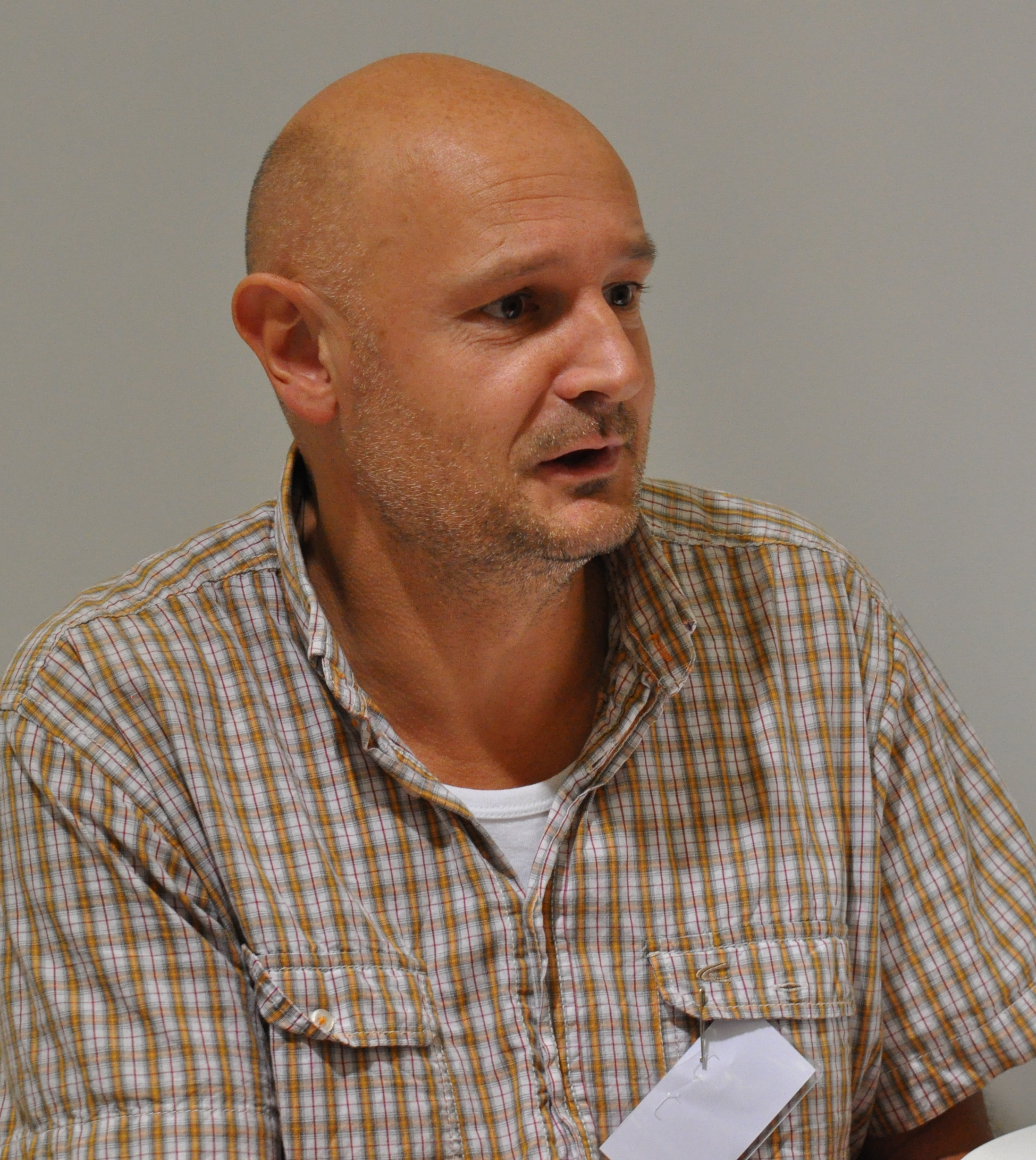 Norwegian writer Erlend Loe at Turku Book Fair, 2011.